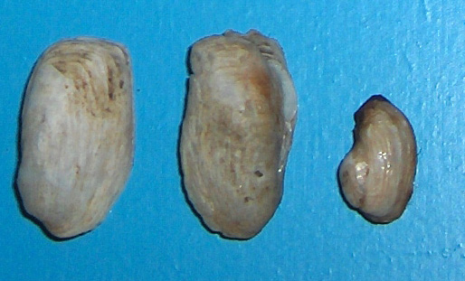 Hiatella rugosa, a saltwater bivalve belonging to the family Hiatellidae